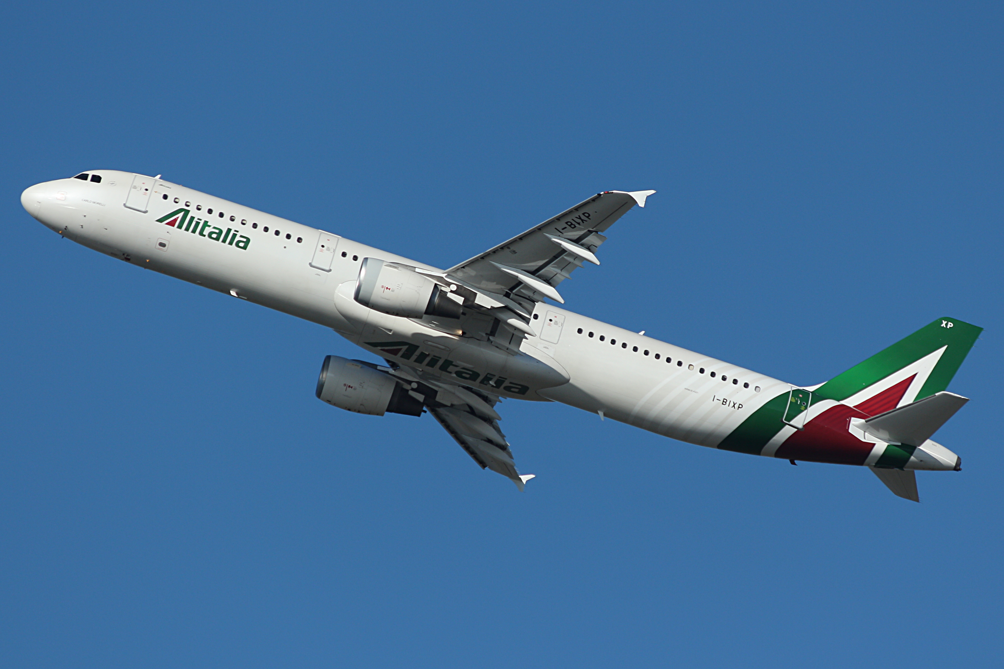 Departing for Cagliari at 01:38 PM CET at Rome Fiumicino Airport (25) as AZ1595